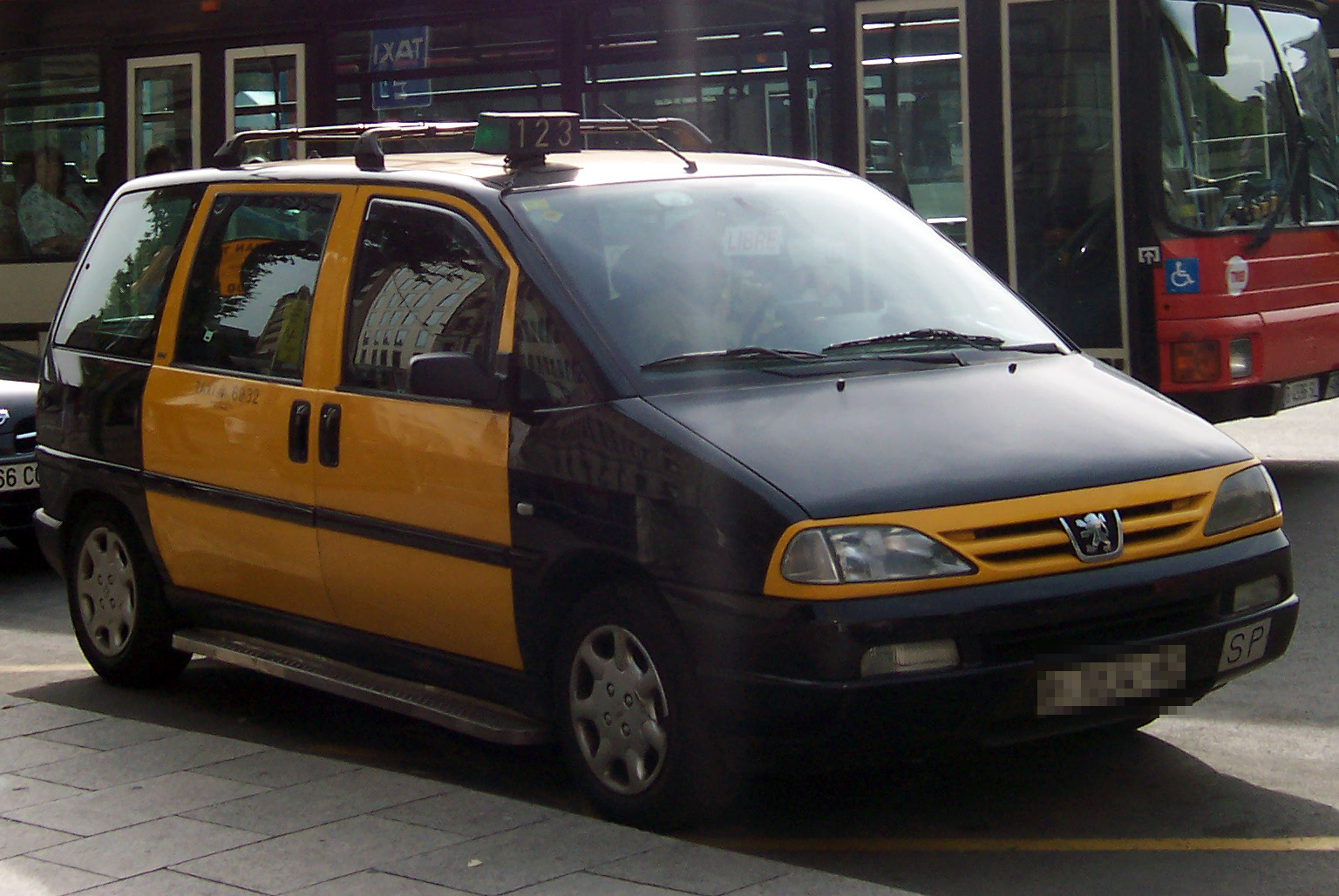 Peugeot 806, Barcelona taxi.